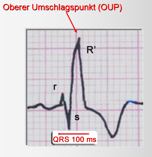 parameters for bundle branch block